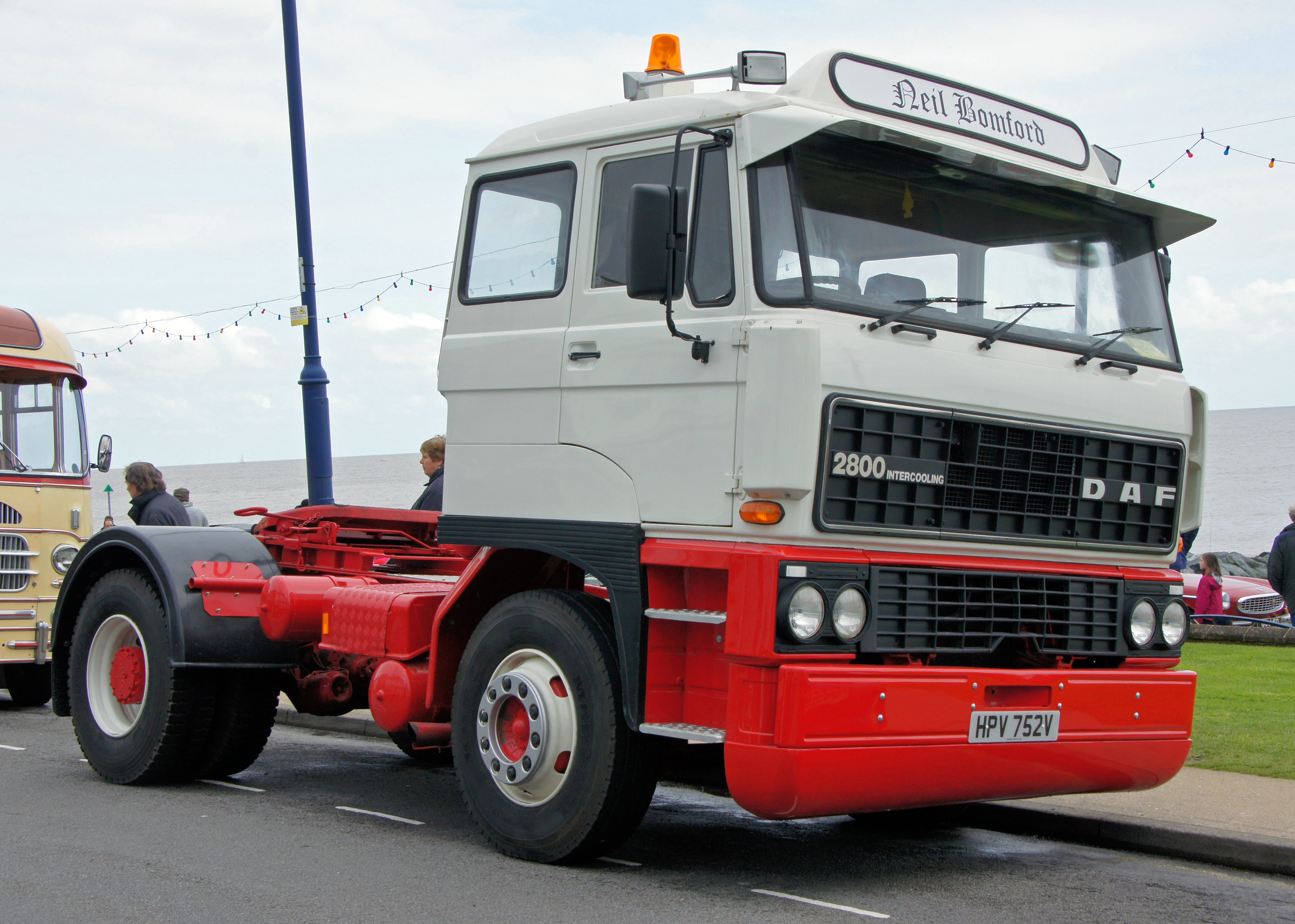 HPV752V 060512 CPS, a 1979 (late) DAF 2800 tractor trailer.